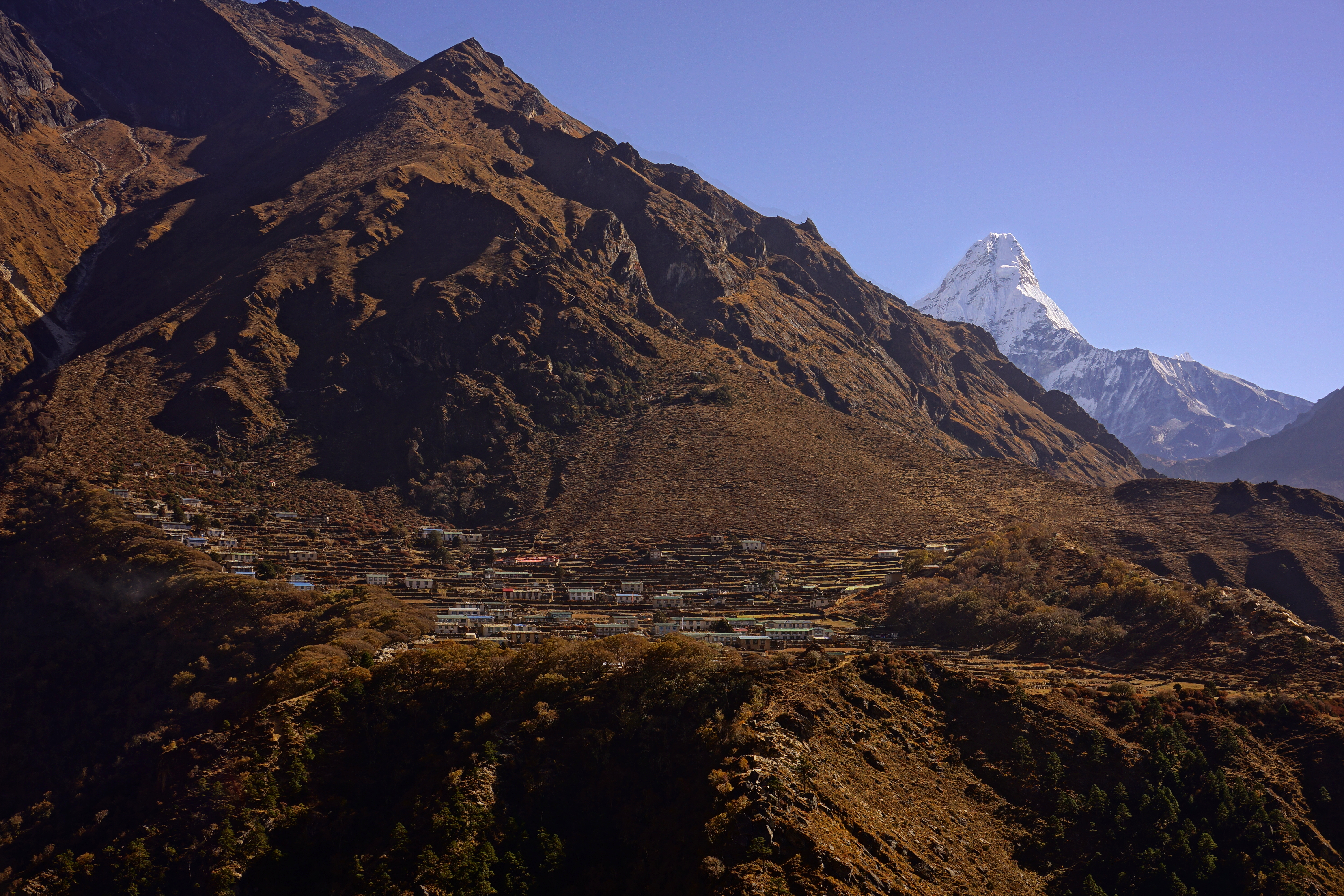 Phortse village and Amadablam mountain in the back. Khumbu Valley, Nepal.